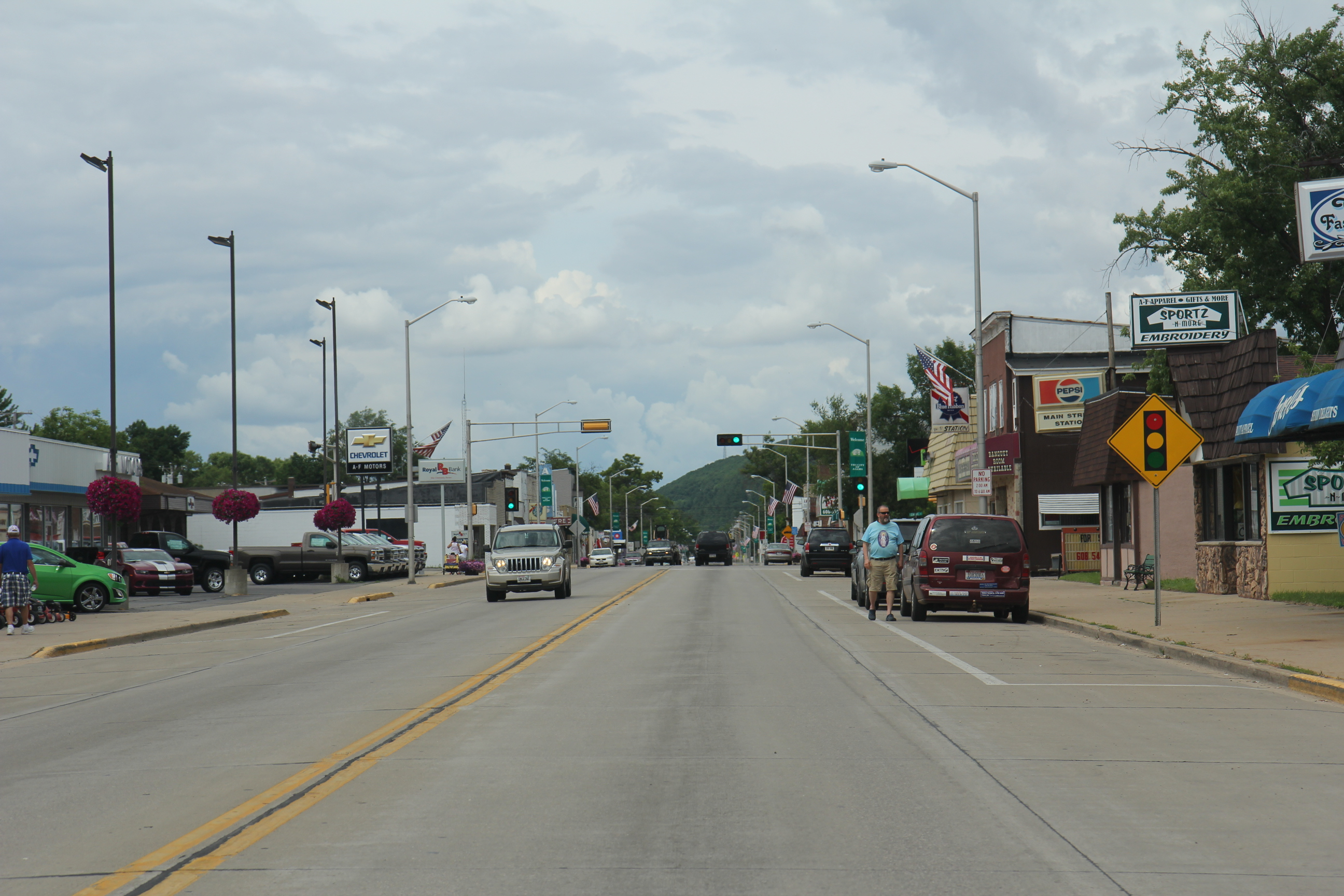 Downtown Adams, Wisconsin looking north on Wisconsin Highway 13.